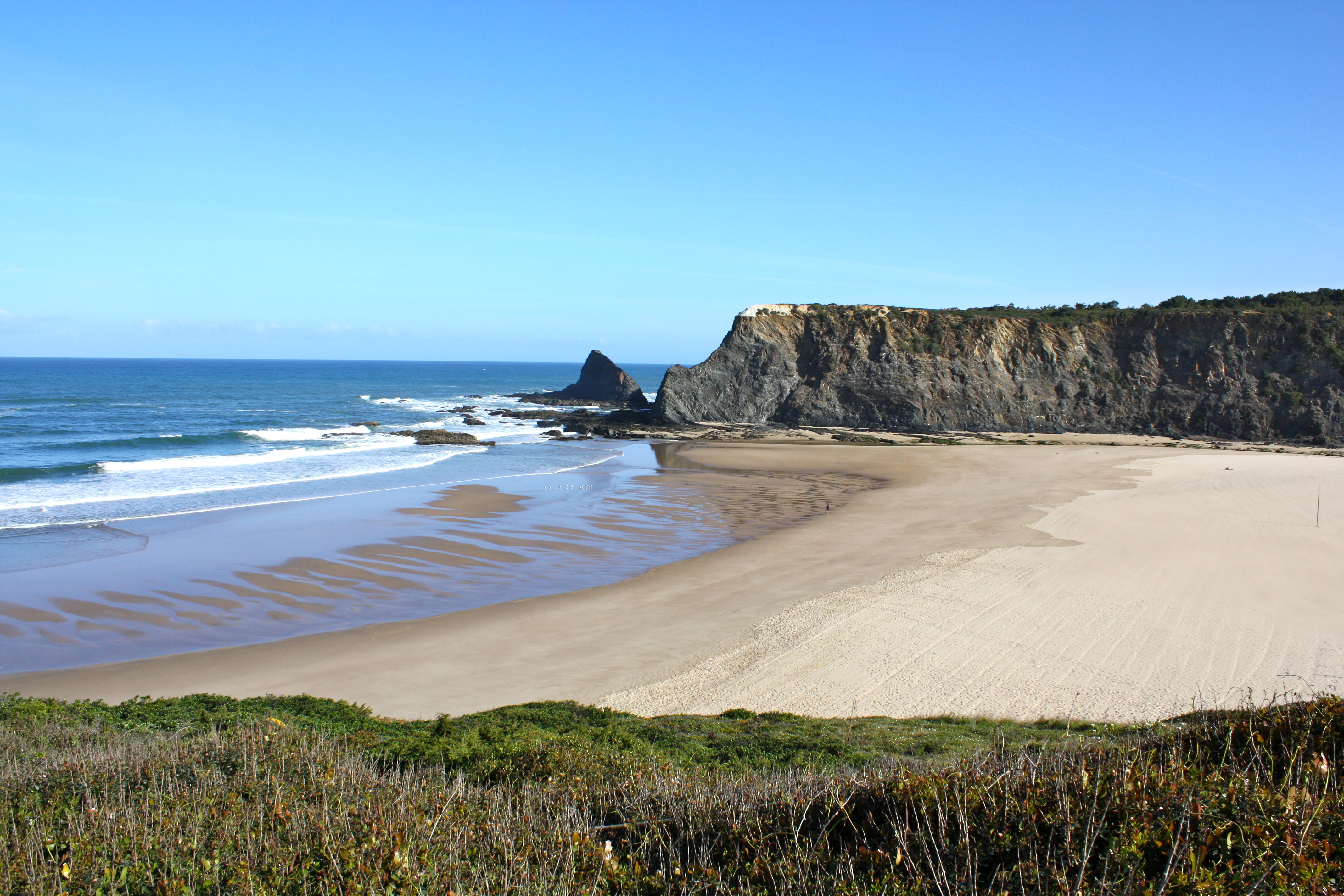 Praia de Odeceixe in the municipality of Aljezur, Algarve, Portugal